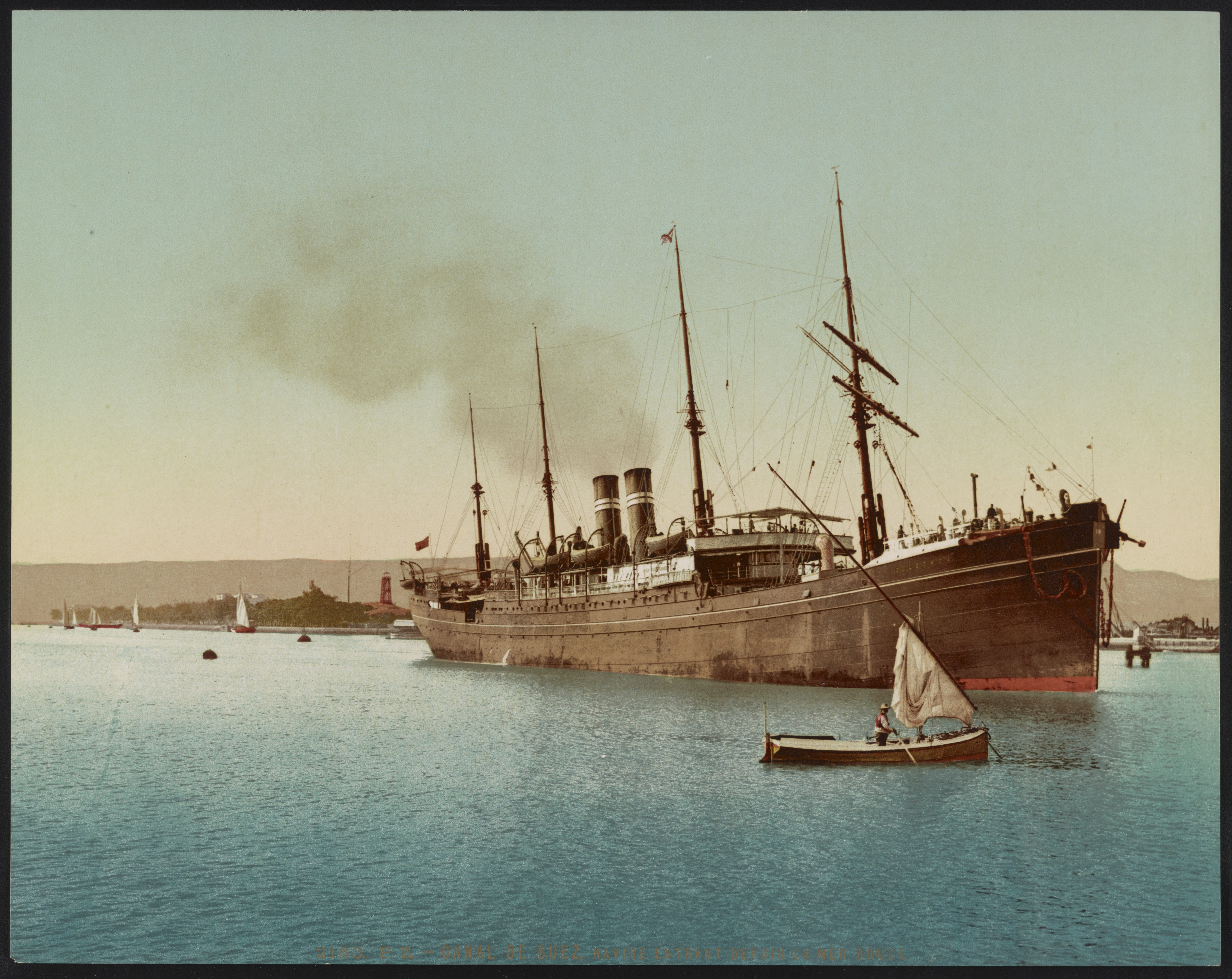 Title: Canal de Suez, navire entrant depuis la Mer Rouge Abstract/medium: 1 print : color photochrom ; sheet 21 x 27 cm.